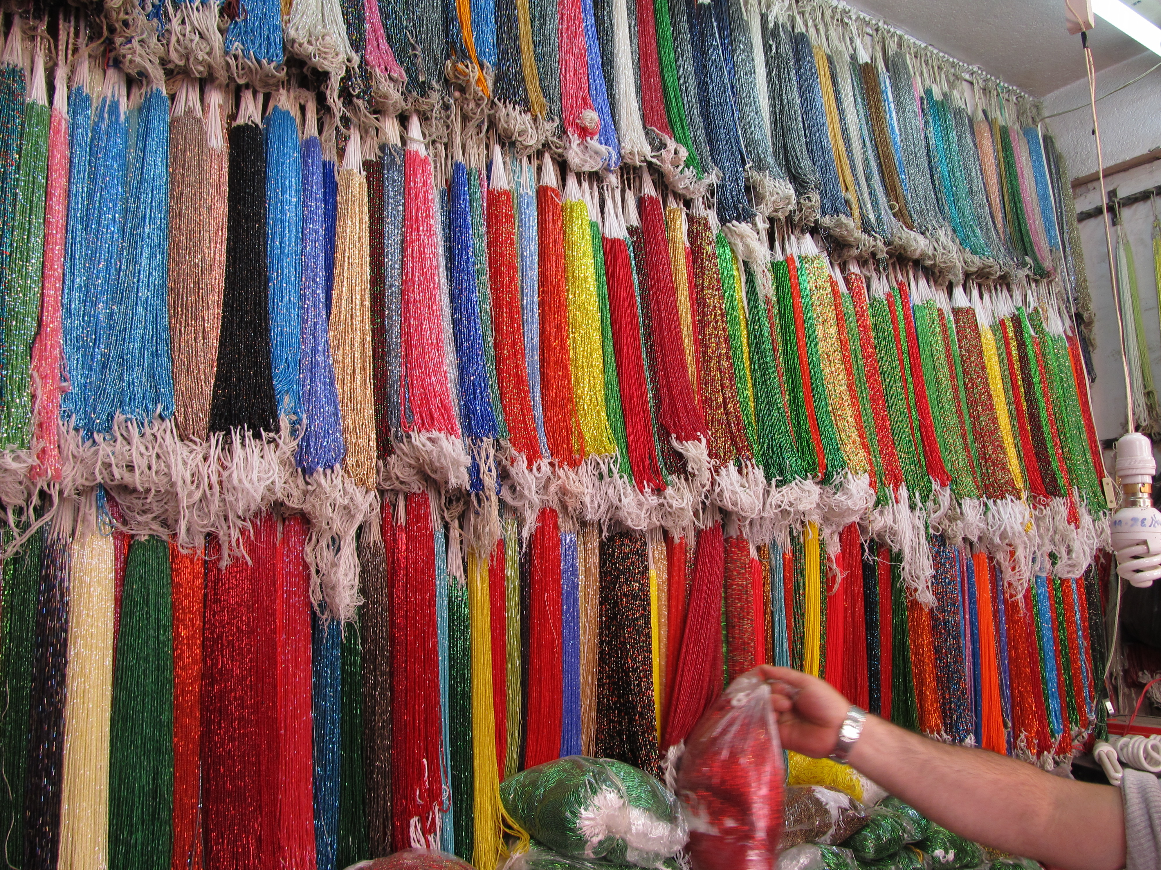 Indrachok, Glass Beads Bazar